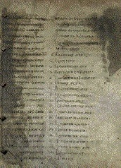 Gahnamak, 5th c. (?), before the Bagratid period, Fragment of manuscript, parchment; cm 34.5 ✕ 25, Venice, Library of the Mekhitarist Fathers of San Lazzaro